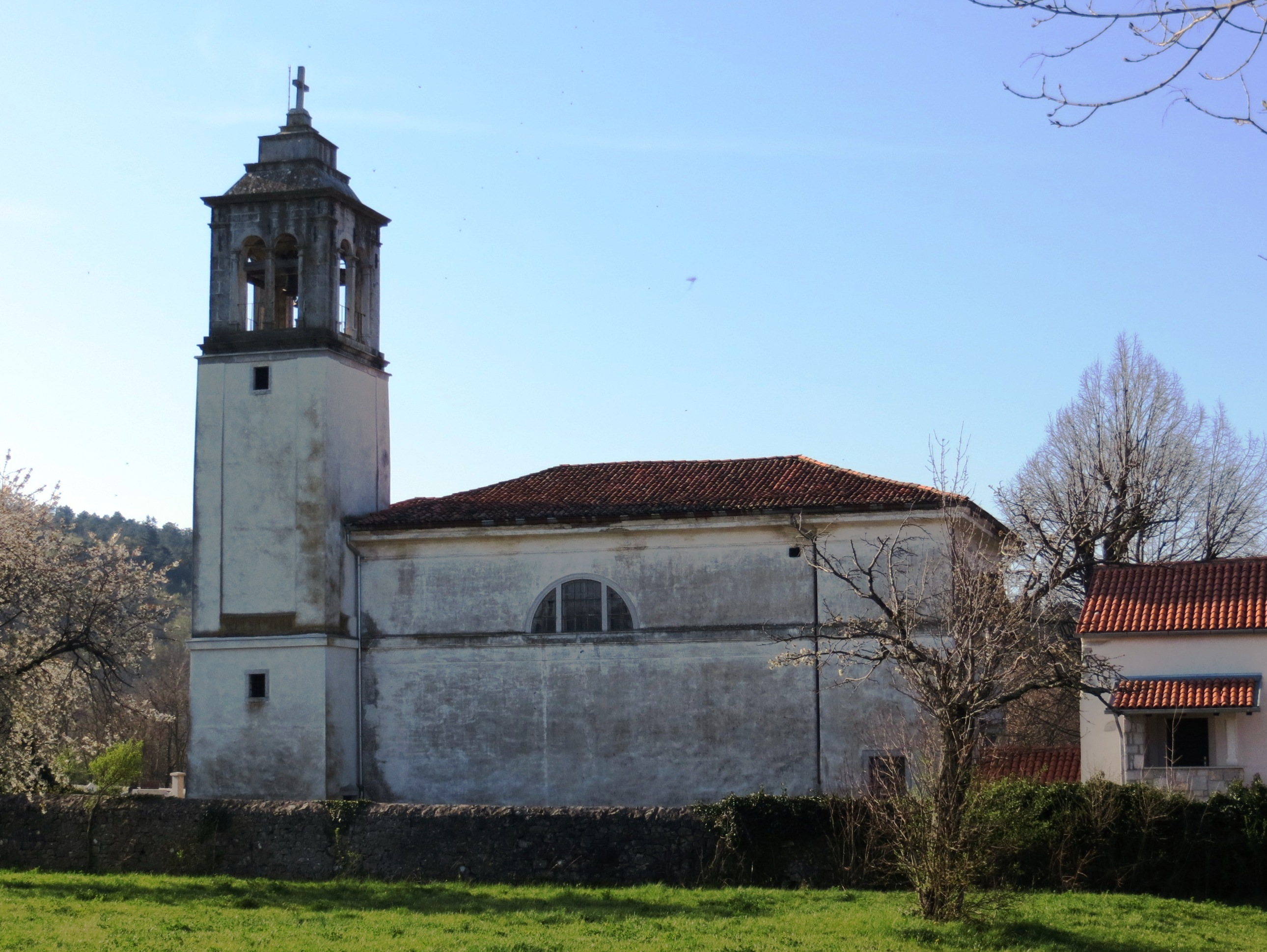 John the Baptist Church in Štorje, Municipality of Sežana, Slovenia